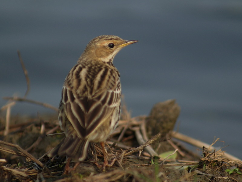 Anthus cervinus 赤喉鷚, Taiwan